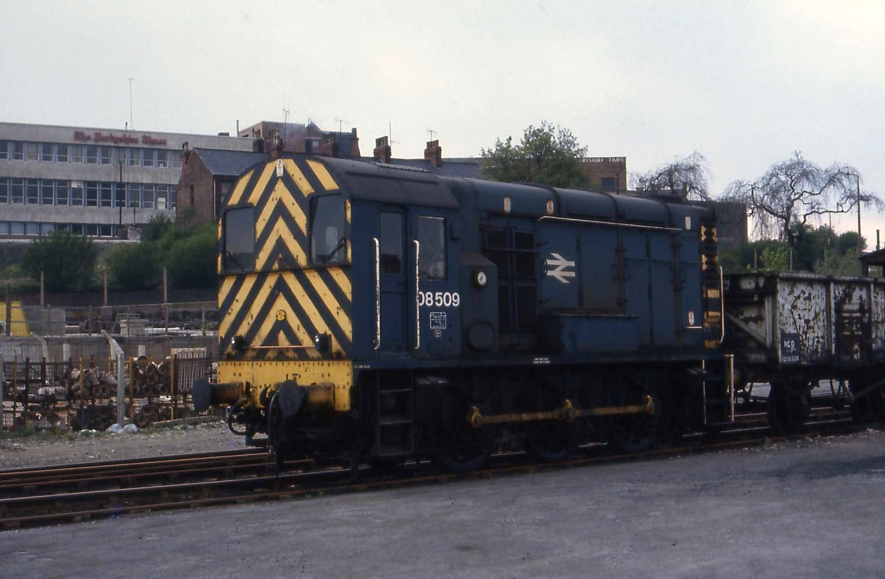 Now a carpark!!